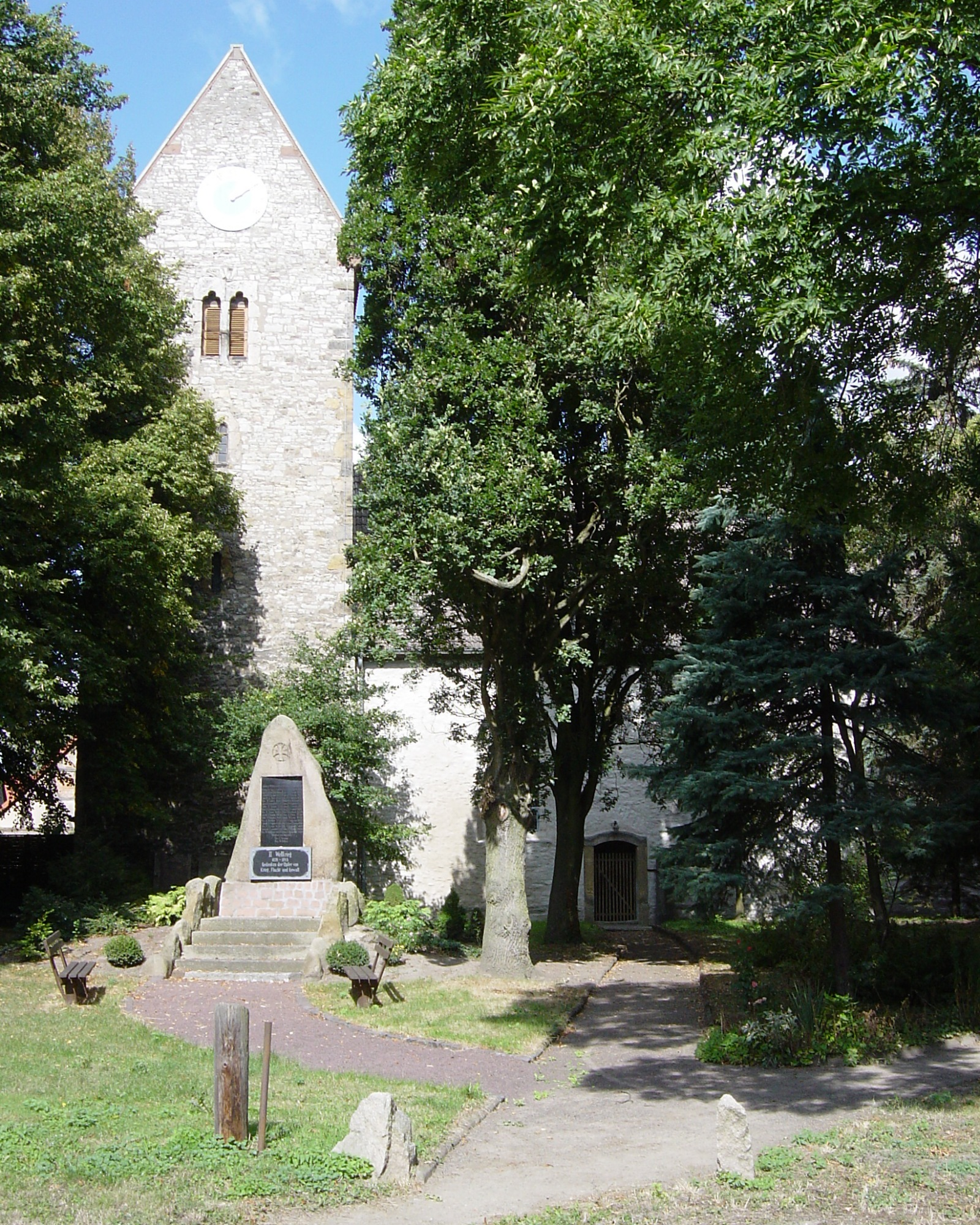 Protestant church in Uhrsleben, Germany